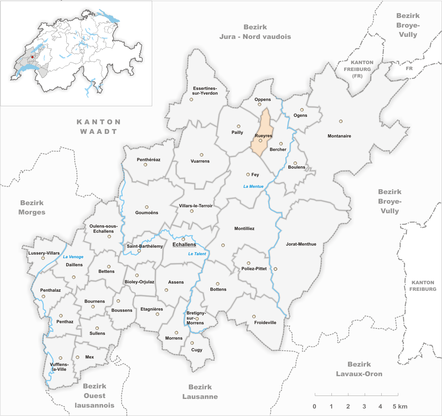 Municipality Rueyres